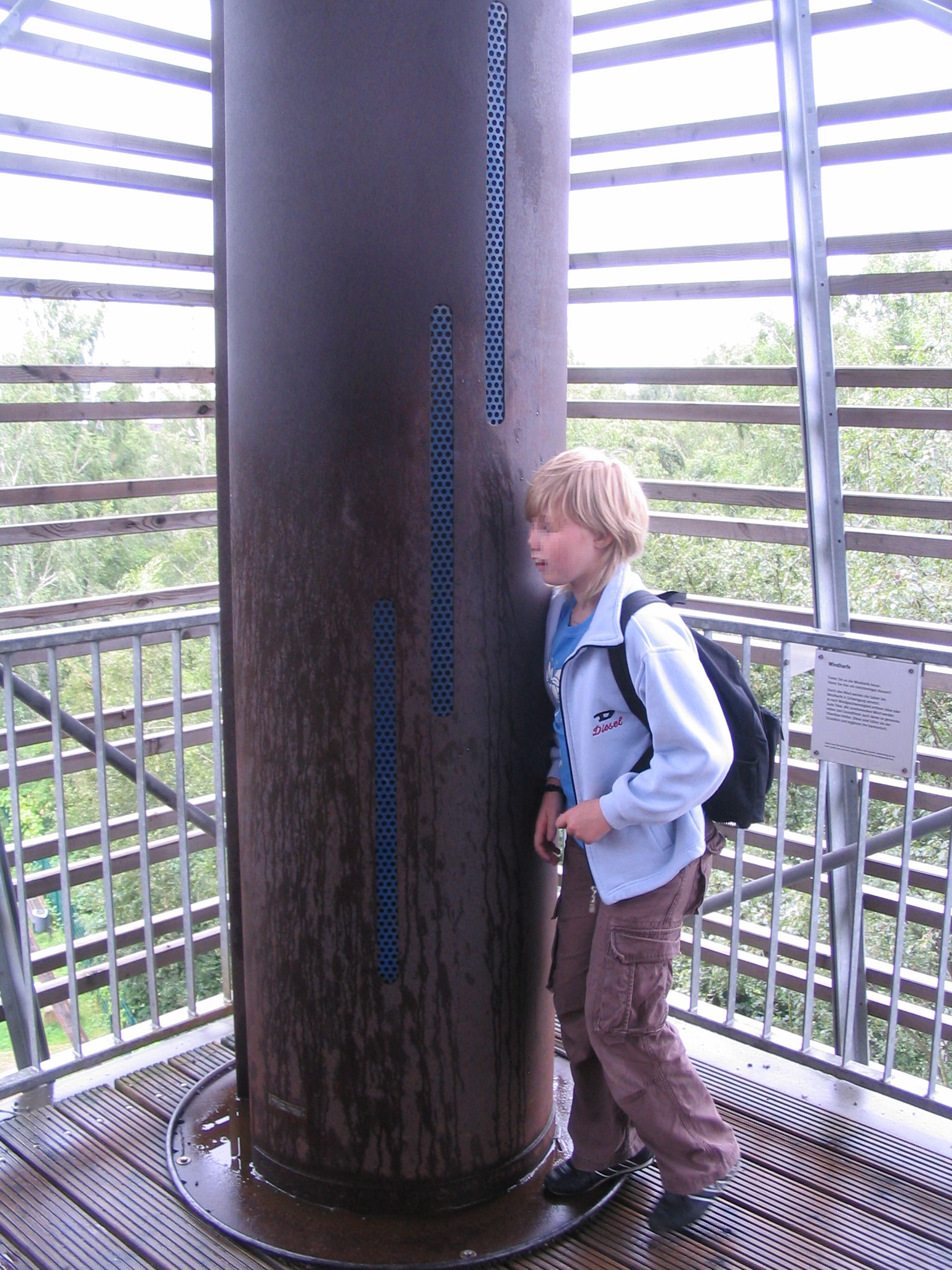 'Windharp' in the Universum in Bremen. Explanation: Stand near the windharp and listen to the sounds. Depending on the wind speeds you can hear various overtones of the fundamental tone.